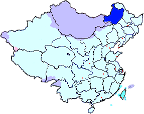 Created by Pryaltonian for maps of Mainland provinces of the Republic of China. Adapted from